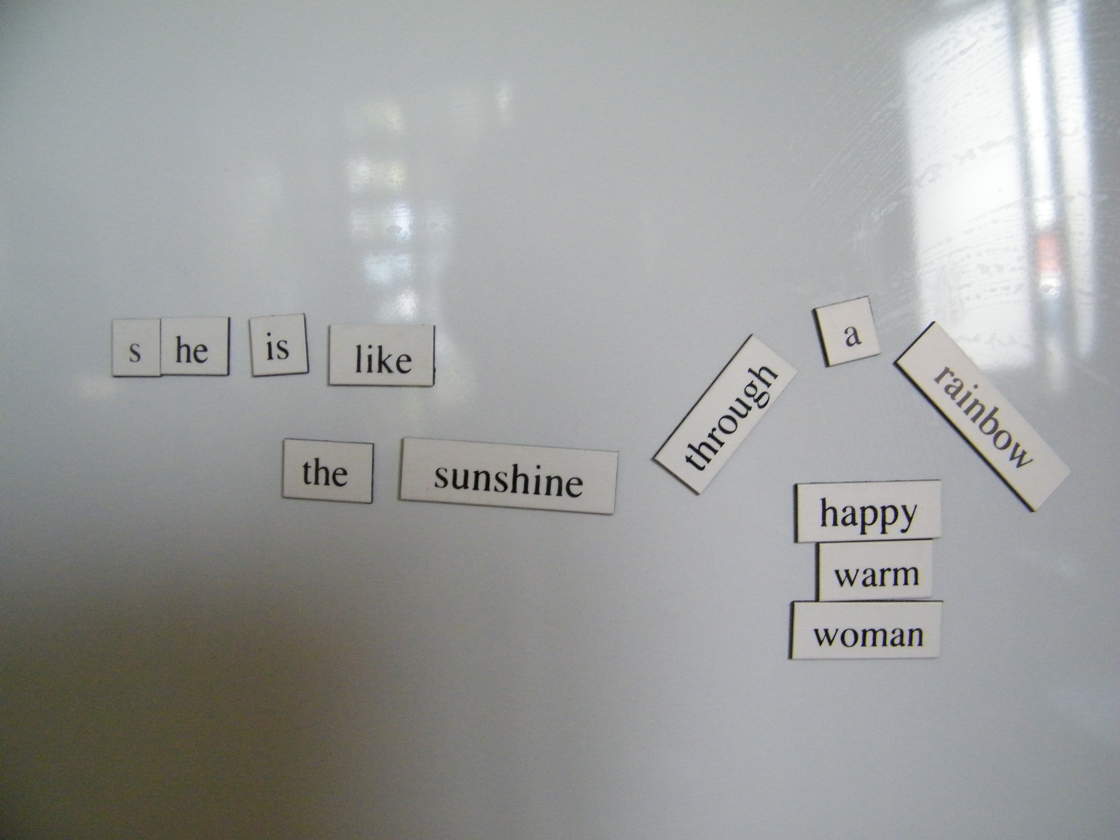 Fridge Poem: Sunshine Christmas present - magnetic poetry words